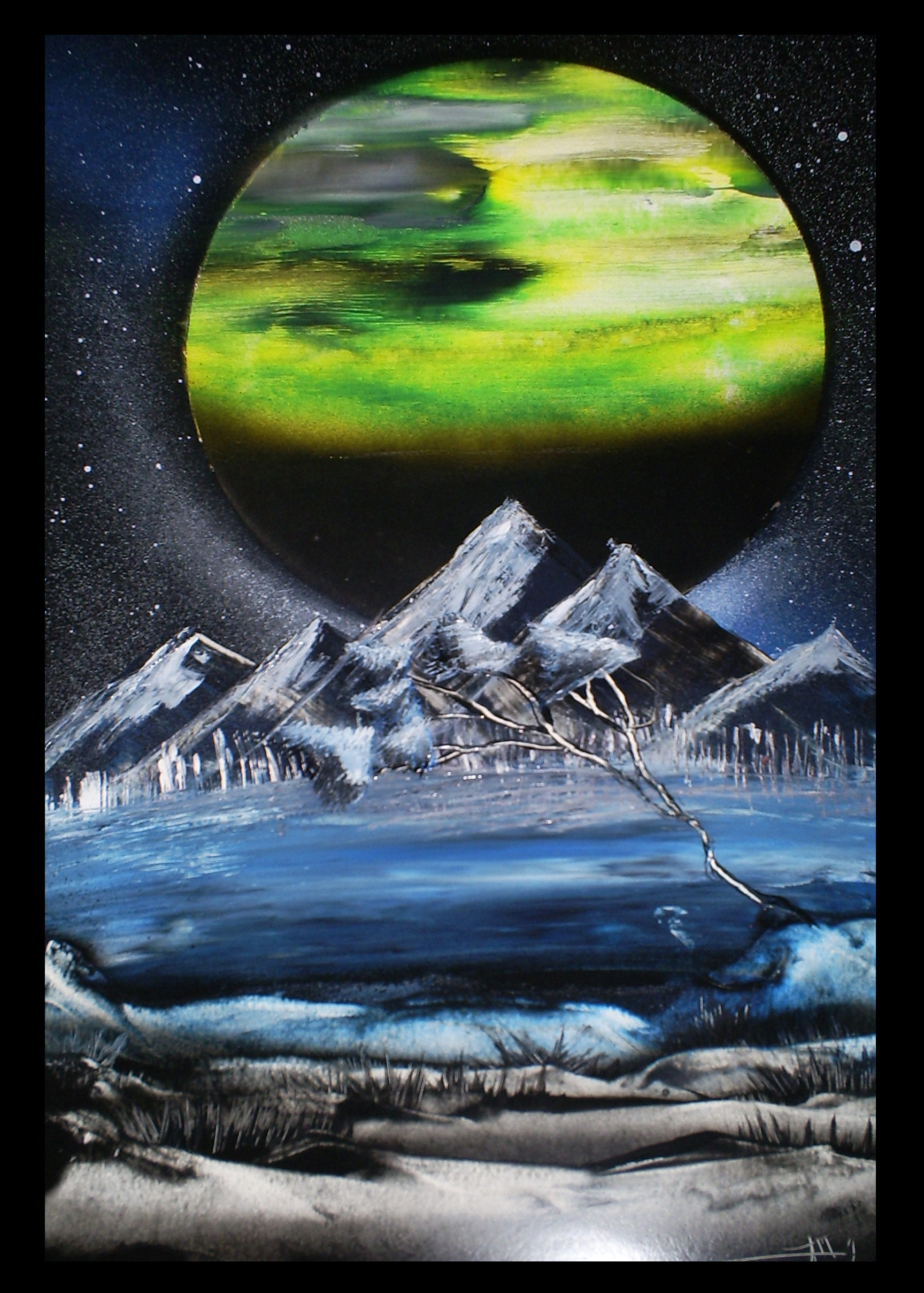 Spraypaint Art done By (Shadow) Thomas Sorresso